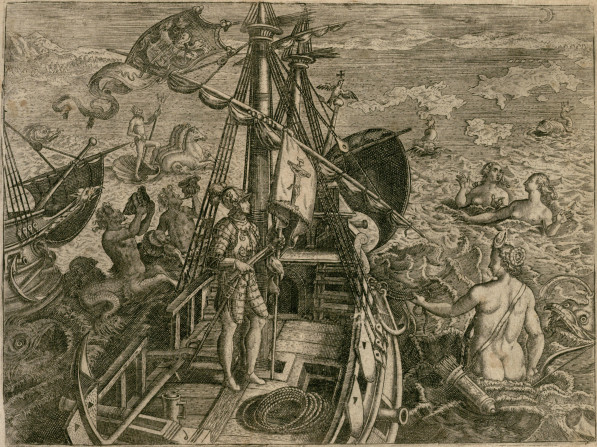 America, Part 4